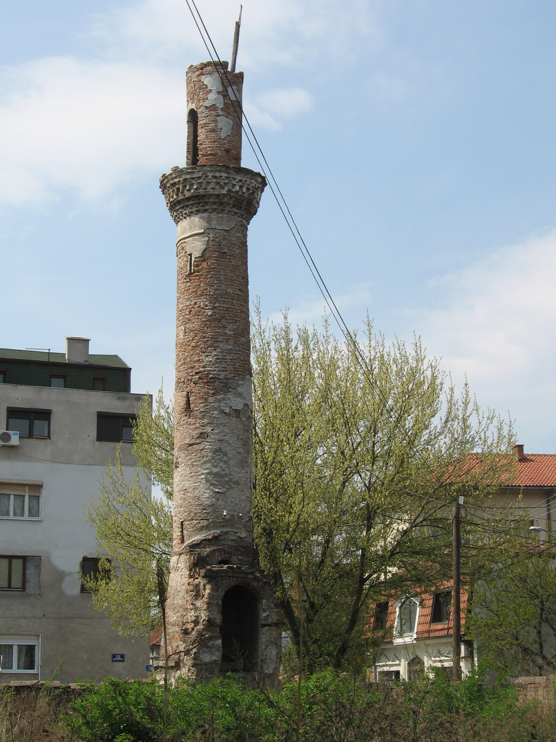 Hasan-beg's Mosque, Niš